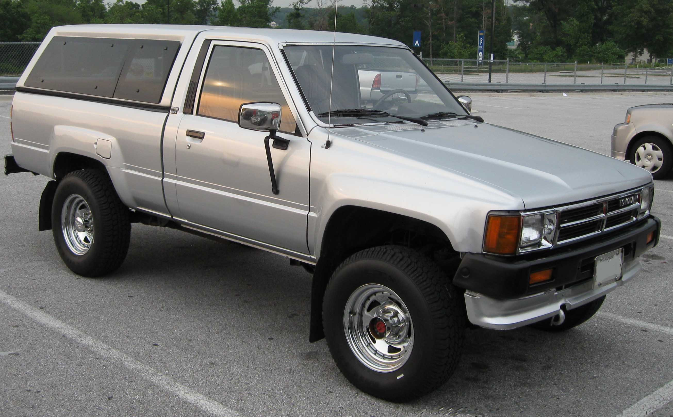 1986-1988 Toyota pickup photographed in College Park, Maryland, USA.